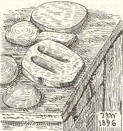 Sketch by Thomas Johnson Westropp